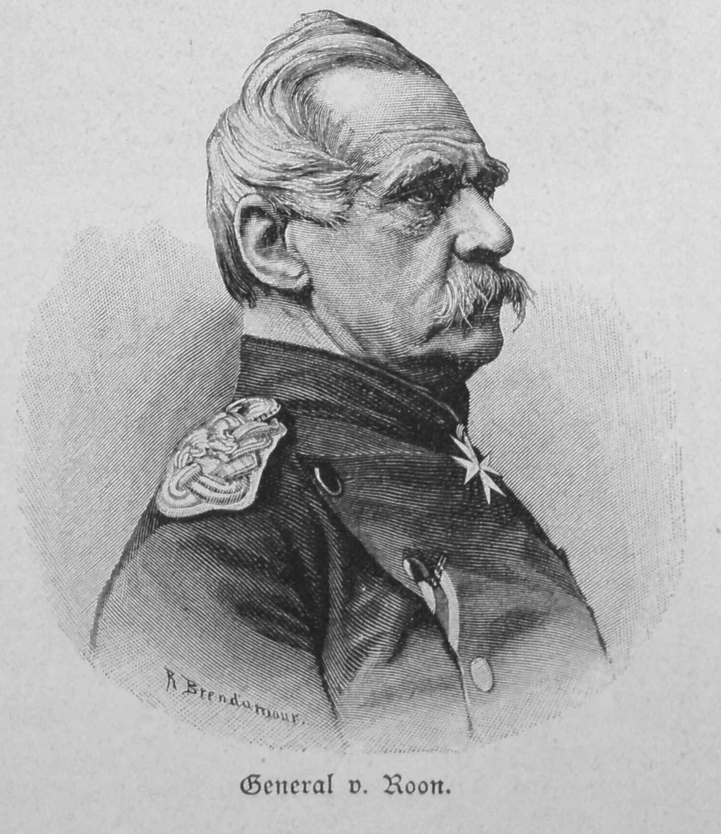 general von Roon